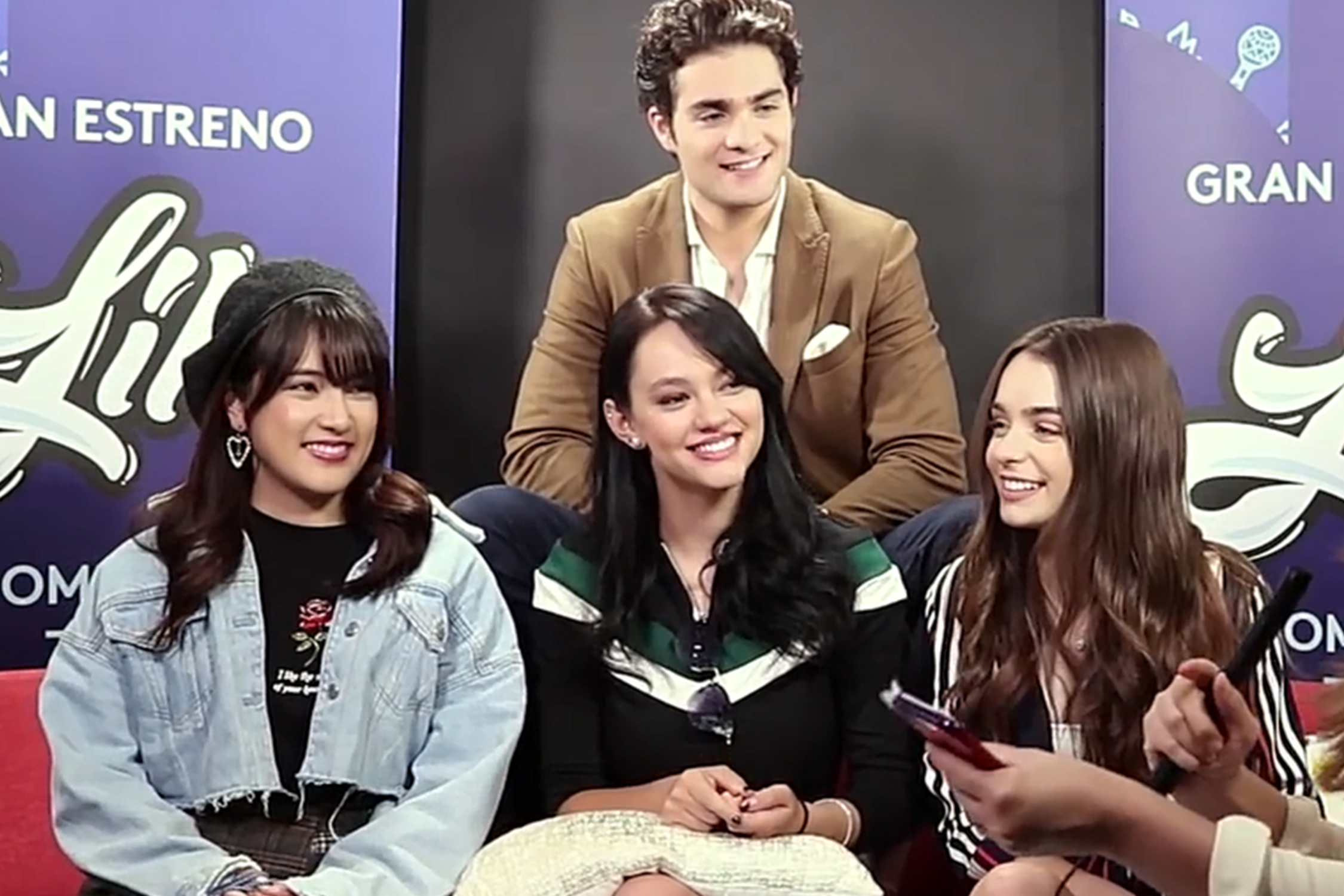 Cast of Like, la leyenda during an interview on October 19, 2018.